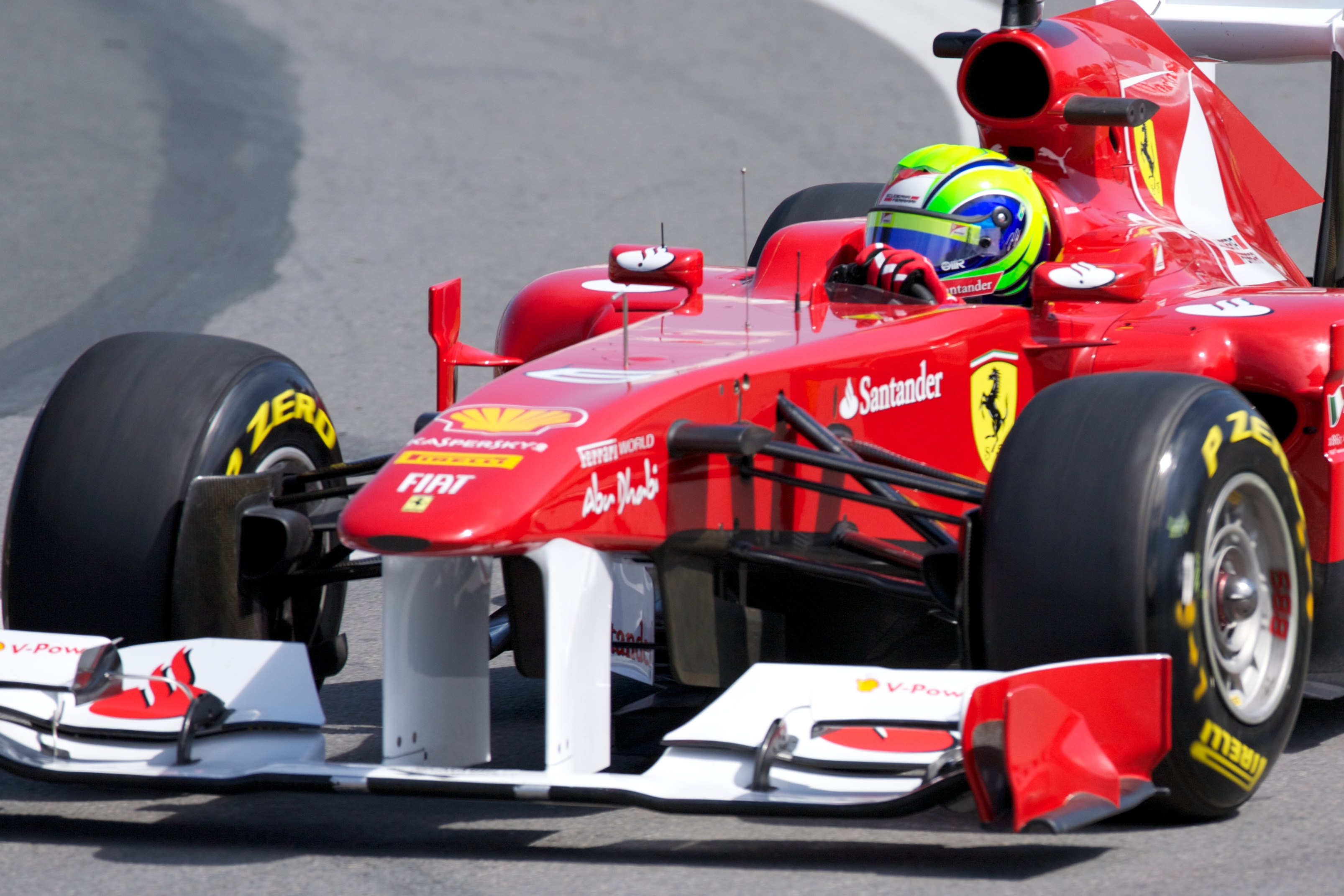 2011 Canadian Grand Prix